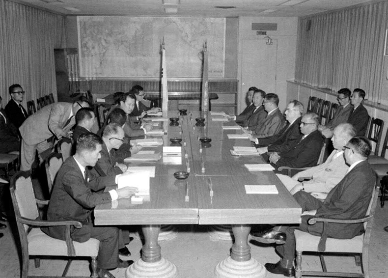 Economic Council of Korea and the IMF (1964) -1